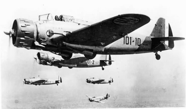 Breda Ba.65 Italian ground attack aircraft near Rome, Italy.